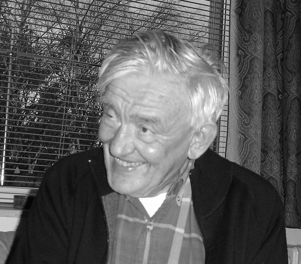 Prof. J. Krecek